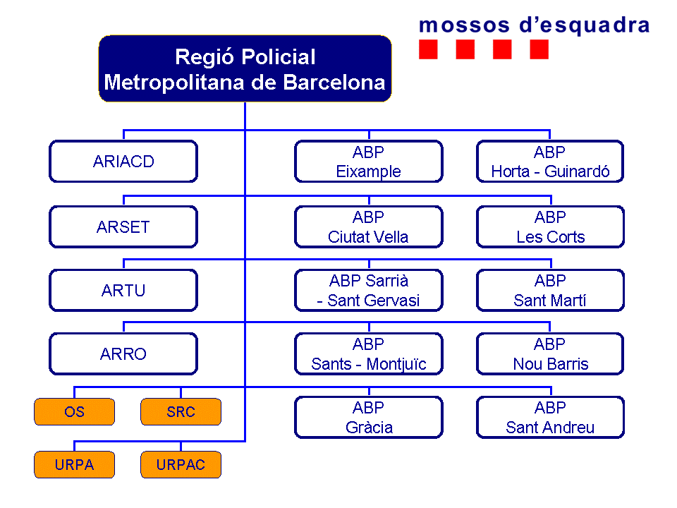 Organizational body about Barcelona Metropolitan Police Region of the Police of the Generalitat - Mossos d'Esquadra.